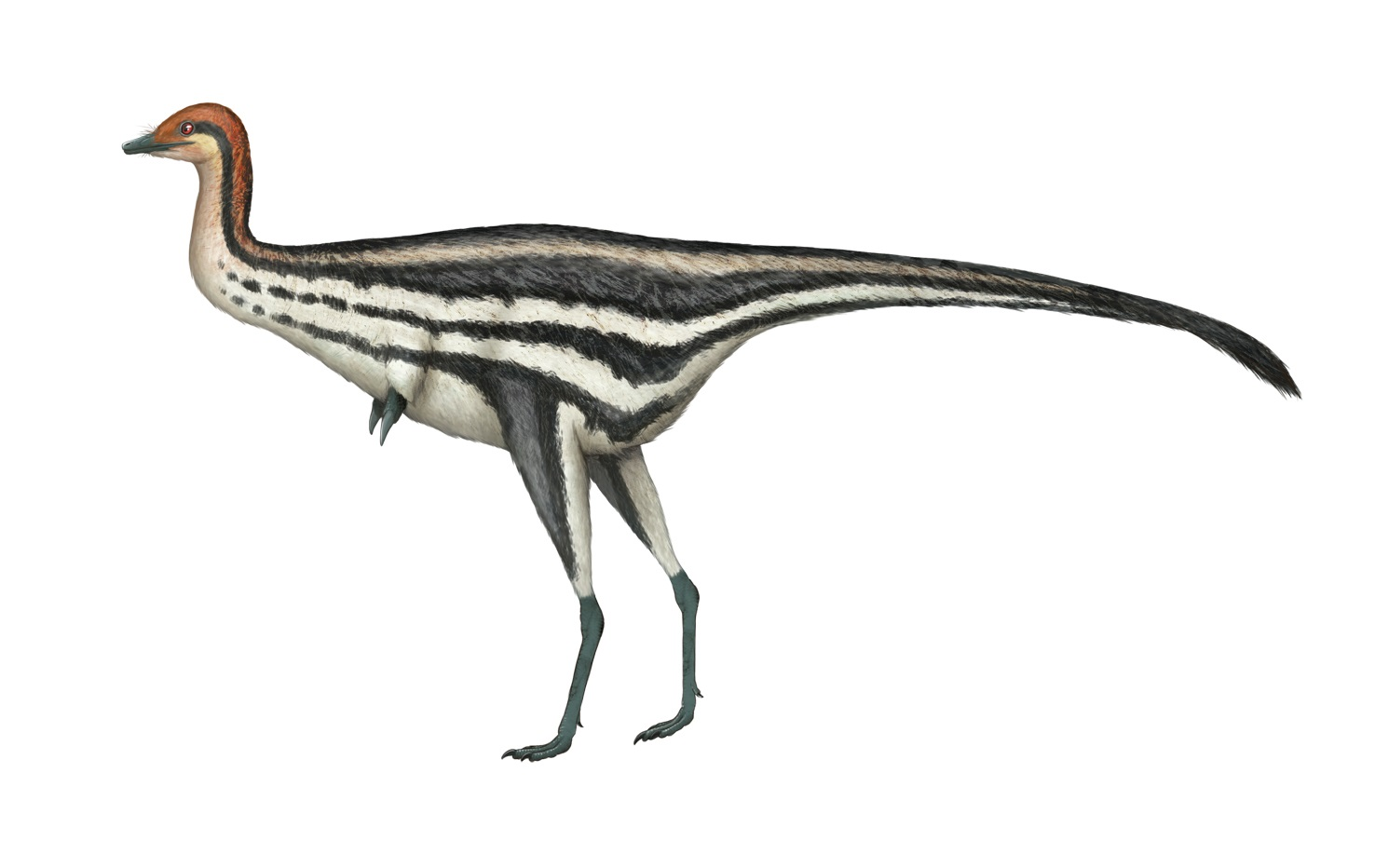 Reconstruction of Patagonykus puertai. Based on Novas (1997); missing portions follow typical alvarezsaurid proportions (e.g. Shuvuuia)